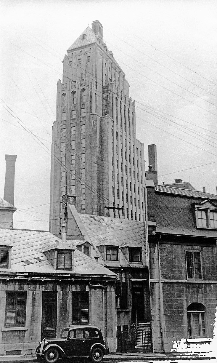 Photo taken by Dr. Alfred Edward (Ted) Hill and inherited by myself, John Hill, his eldest son.